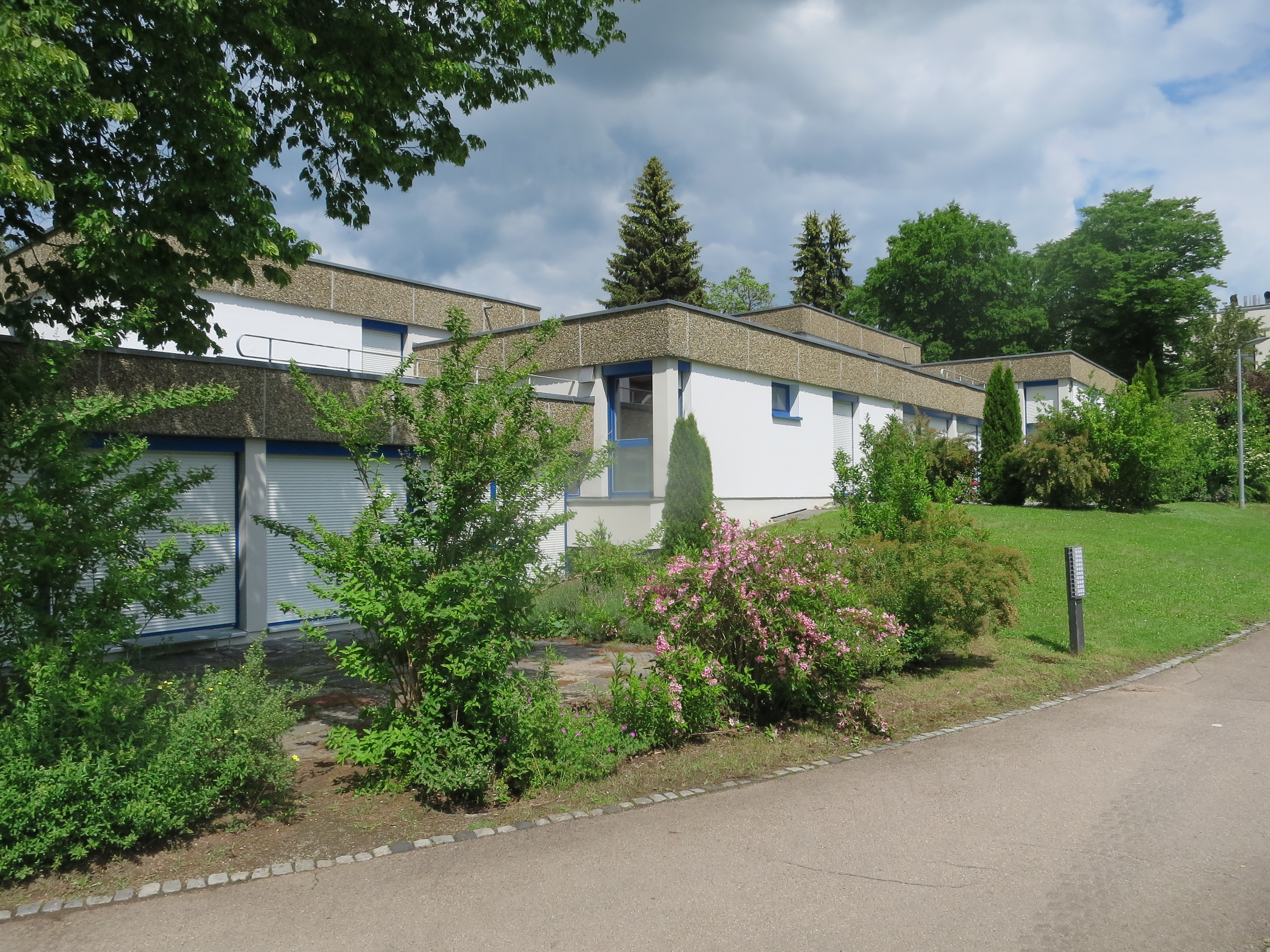 Village for children - pictures of the site Marienpflege Ellwangen